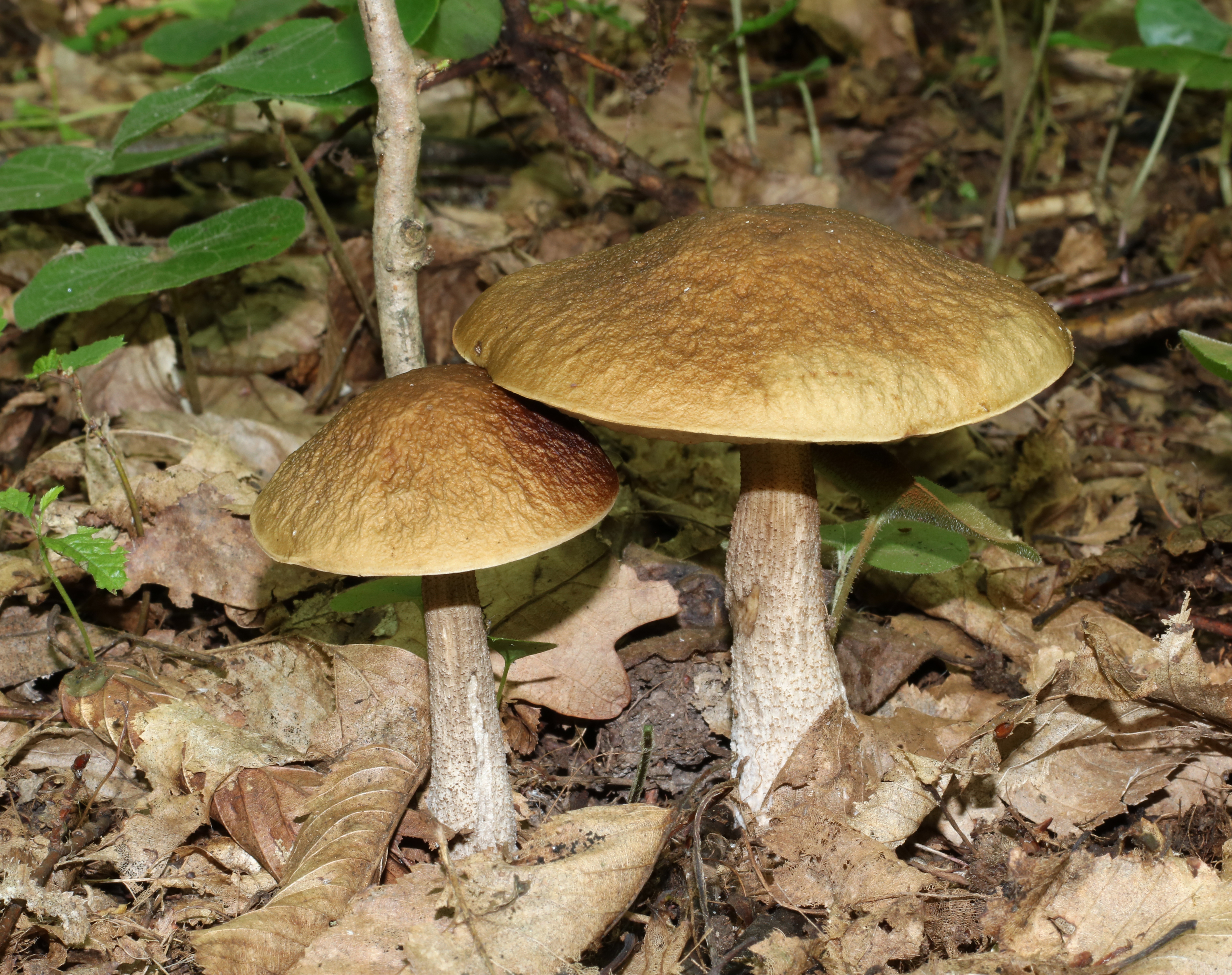 Hazel bolete Leccinum pseudoscabrum. Ukraine